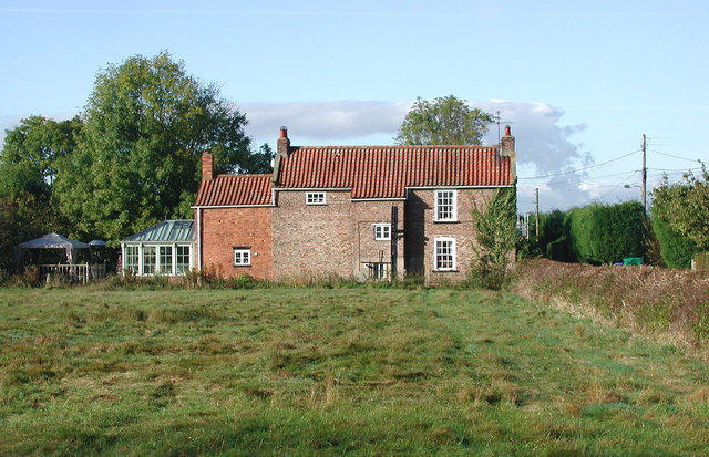 Crumble Manor, Bennetland, East Riding of Yorkshire, England.Looking west-southwest towards Crumble Manor from just west of Shawns Cottage on the south side of Bennetland Lane, Gilberdyke.